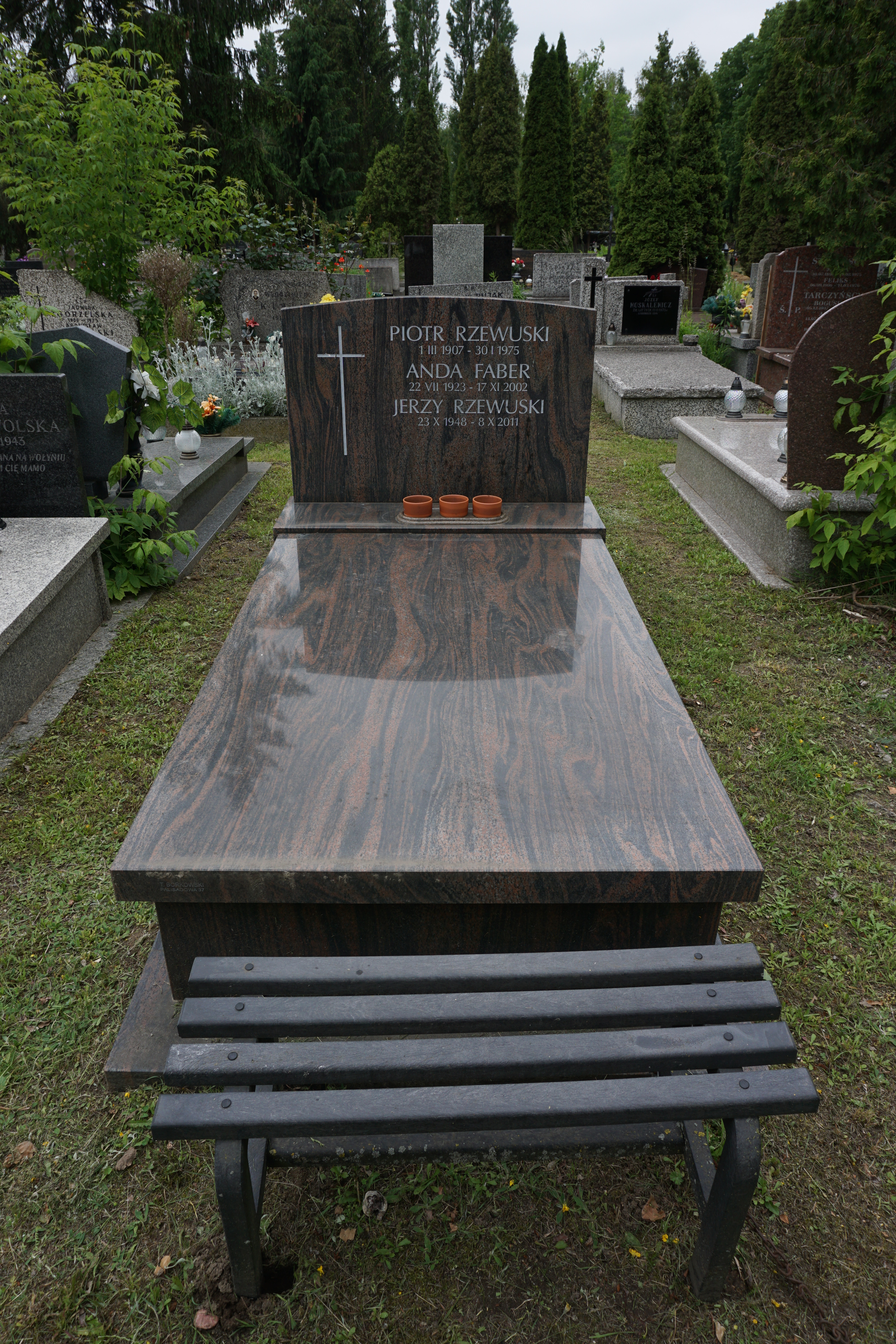 The grave of Jerzy Rzewuski at the North Municipal Cemetery in Warsaw (section E-XVII-3, row 1, grave 4)